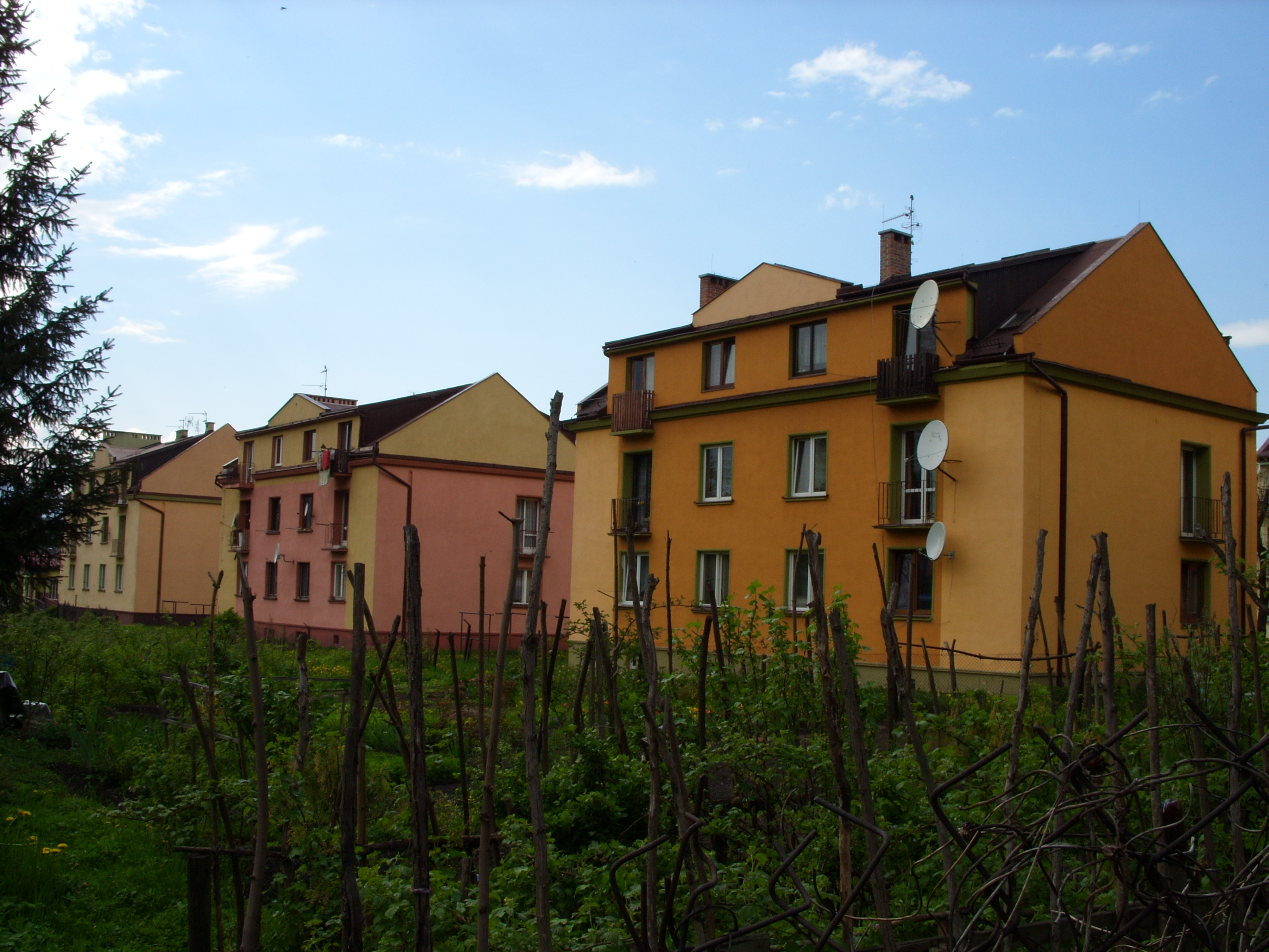 Pod Grapą housing estate in Żywiec (Poland)